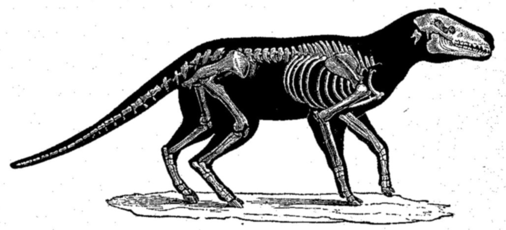 Anoplotherium commune Skeleton.